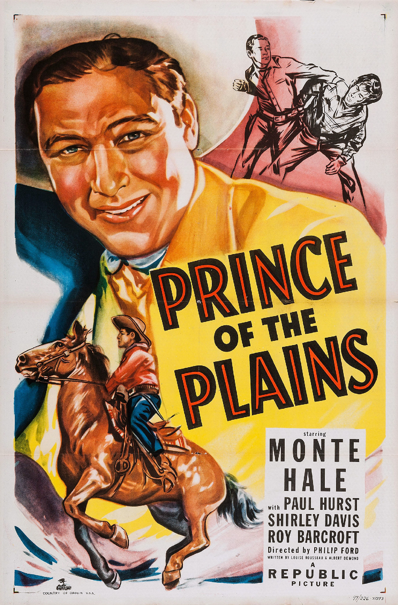 Poster for the 1949 film Prince of the Plains. There are no copyright marks. At bottom left is Country of origin USA. At bottom right is 49/226-37393.